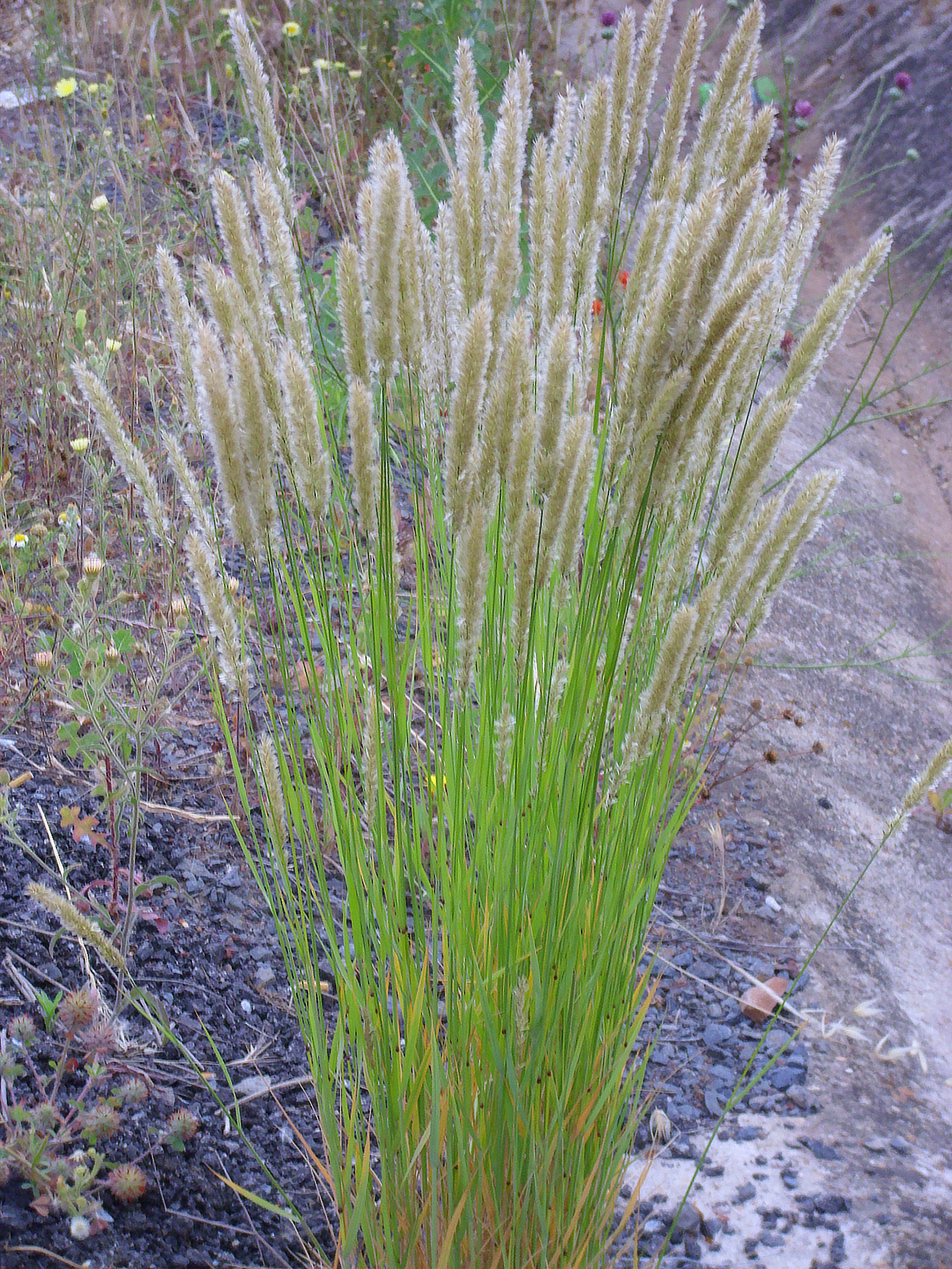 Melica ciliata habit, Dehesa Boyal de Puertollano, Spain